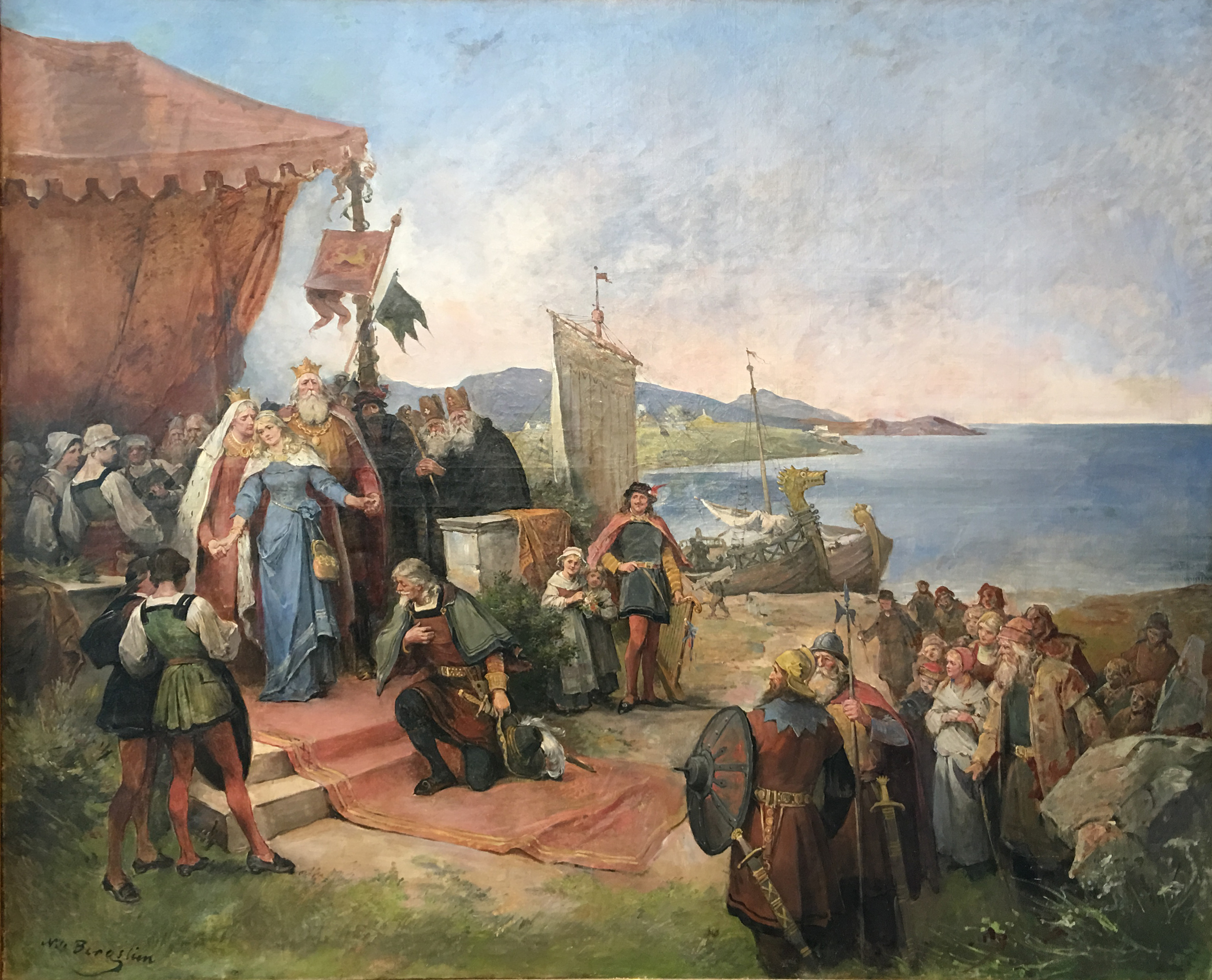 The painting "Kristina's departure to Spain (Norwegian: "Kristinas avreise til Spanien") by Nils Bergslien (1852 – 1928) depicts Christina of Norway (Norwegian: Kristina Håkonsdotter; 1234 – 1262), the daughter of Håkon IV, setting off to Spain in 1257. Oil on canvas 70.5 x 87.5 (179 x 222 cm). Displayed at Tønsberg og Færder bibliotek, the public library in Tønsberg, Norway. Cell phone photo 2018-02-12.